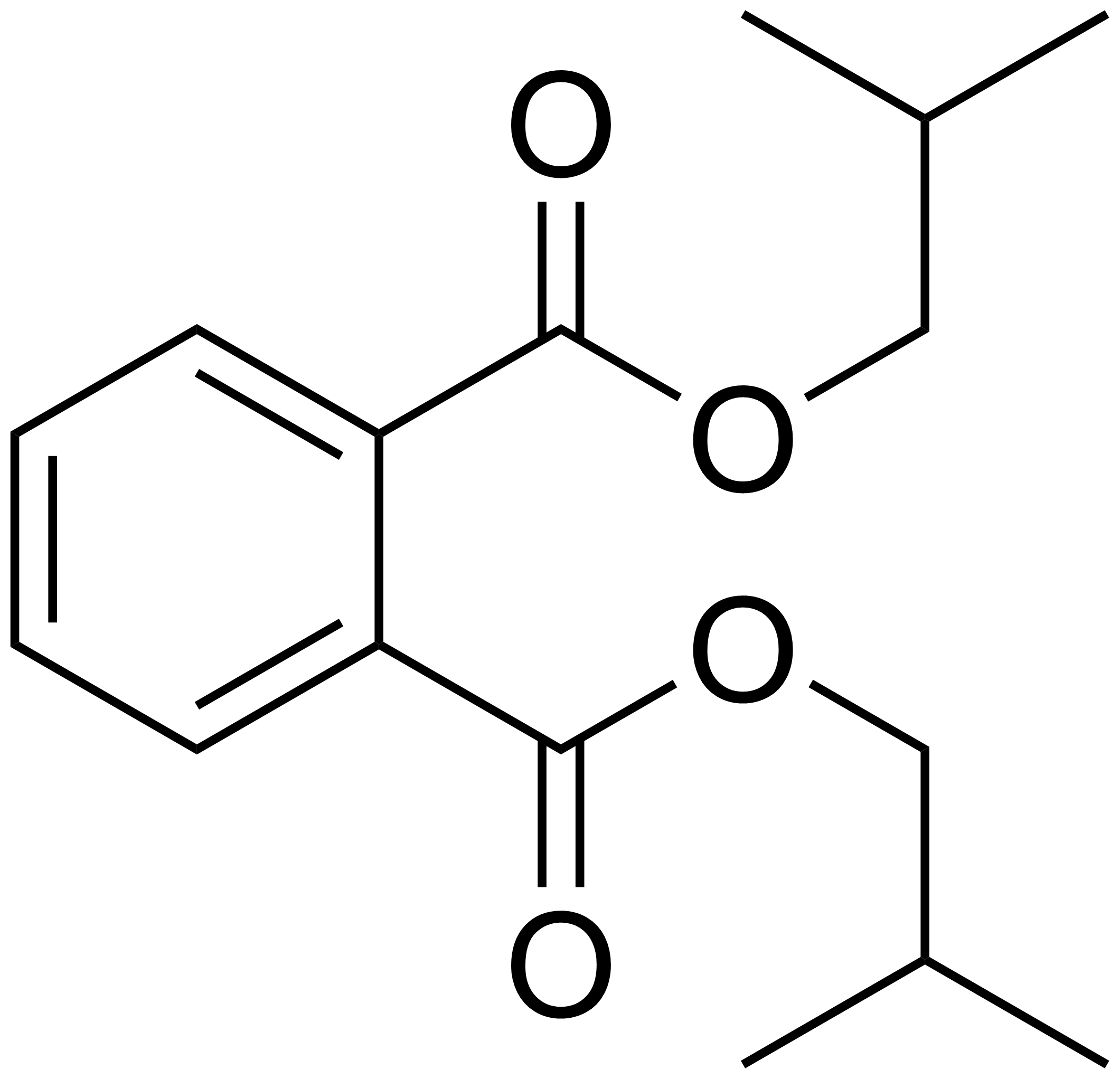 2D-structure diisobutyl phthalate (DIBP)